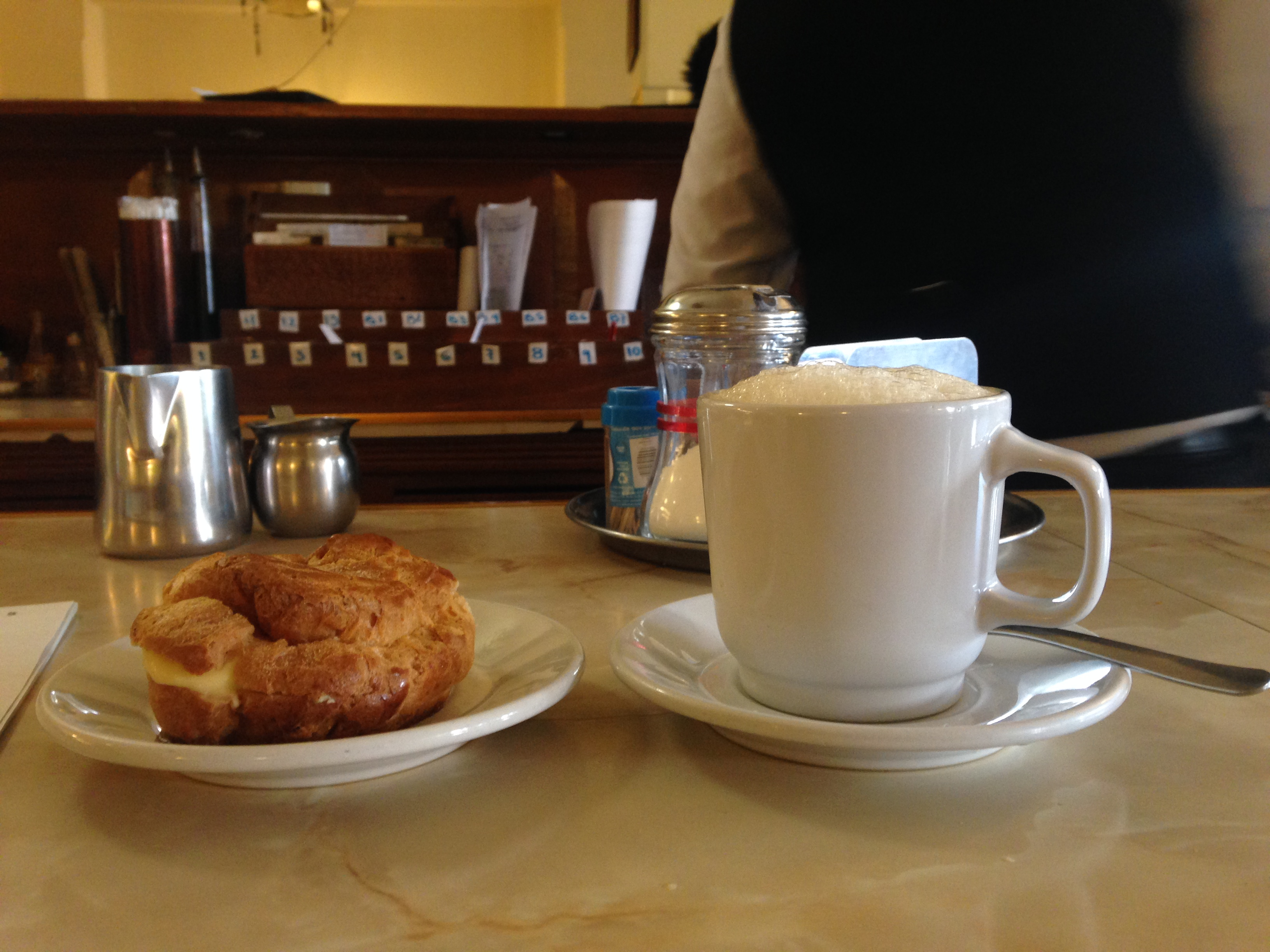 Café con leche (Spanish: "coffee with milk") with choux pastry bread. Mexico City, Mexico.